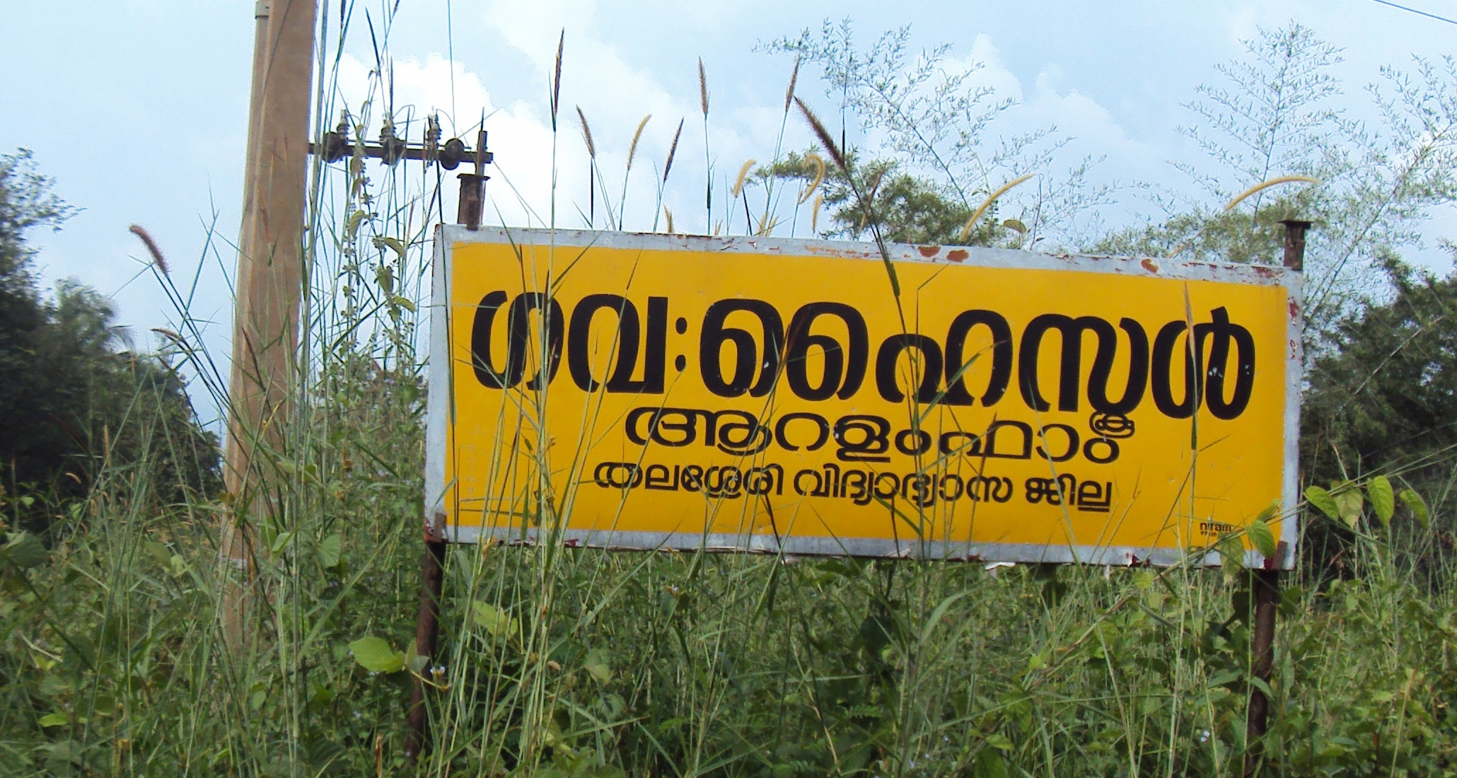 Aralam Farm Government High School